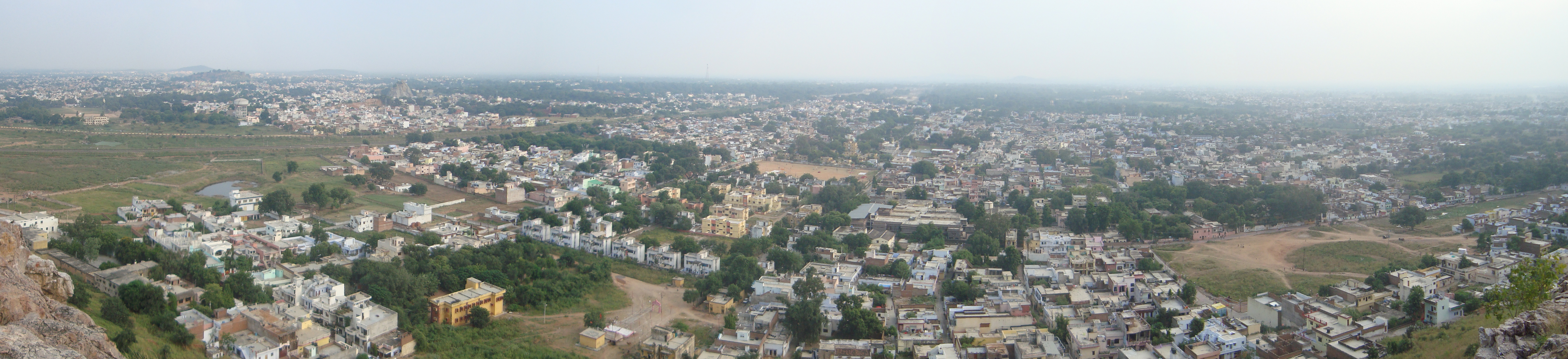 This image was created by stitching together 4 photographs taken from the Hilltop in Sipri, Jhansi.